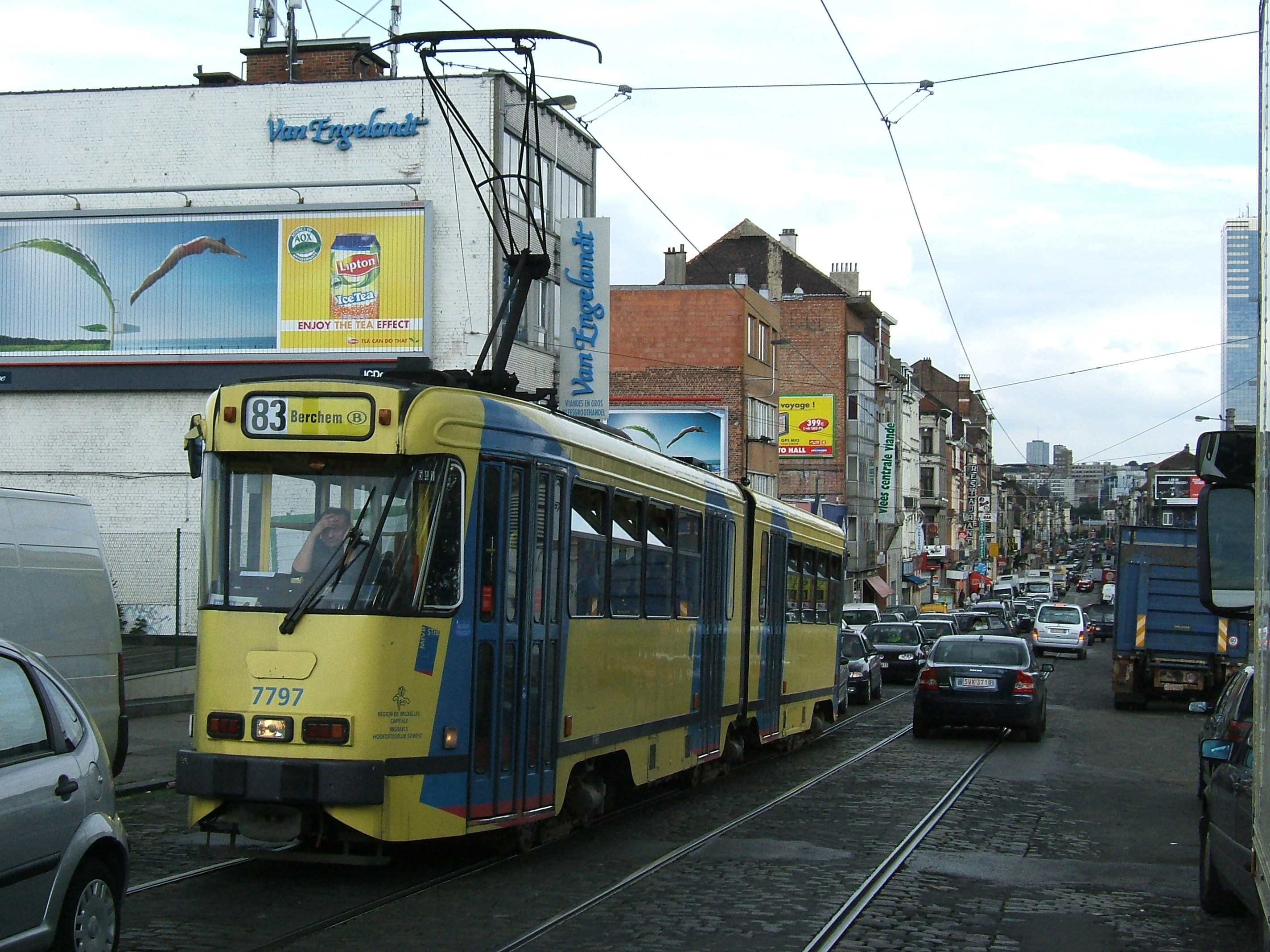 83 in Ropsy Chaudron Street. Due to restructuring in the network, tram line 83 in Brussels will be discontinued after June 30. The stretch Bara square-Delacroix, about one kilometre long, is being abandoned.